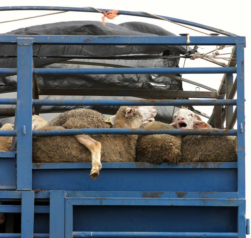 Lambs that arrived to Israel by air are transpoted from Ben Gurion airport to Ramallah. Part of live export of 1,500 lambs that arrived by air to Israel.